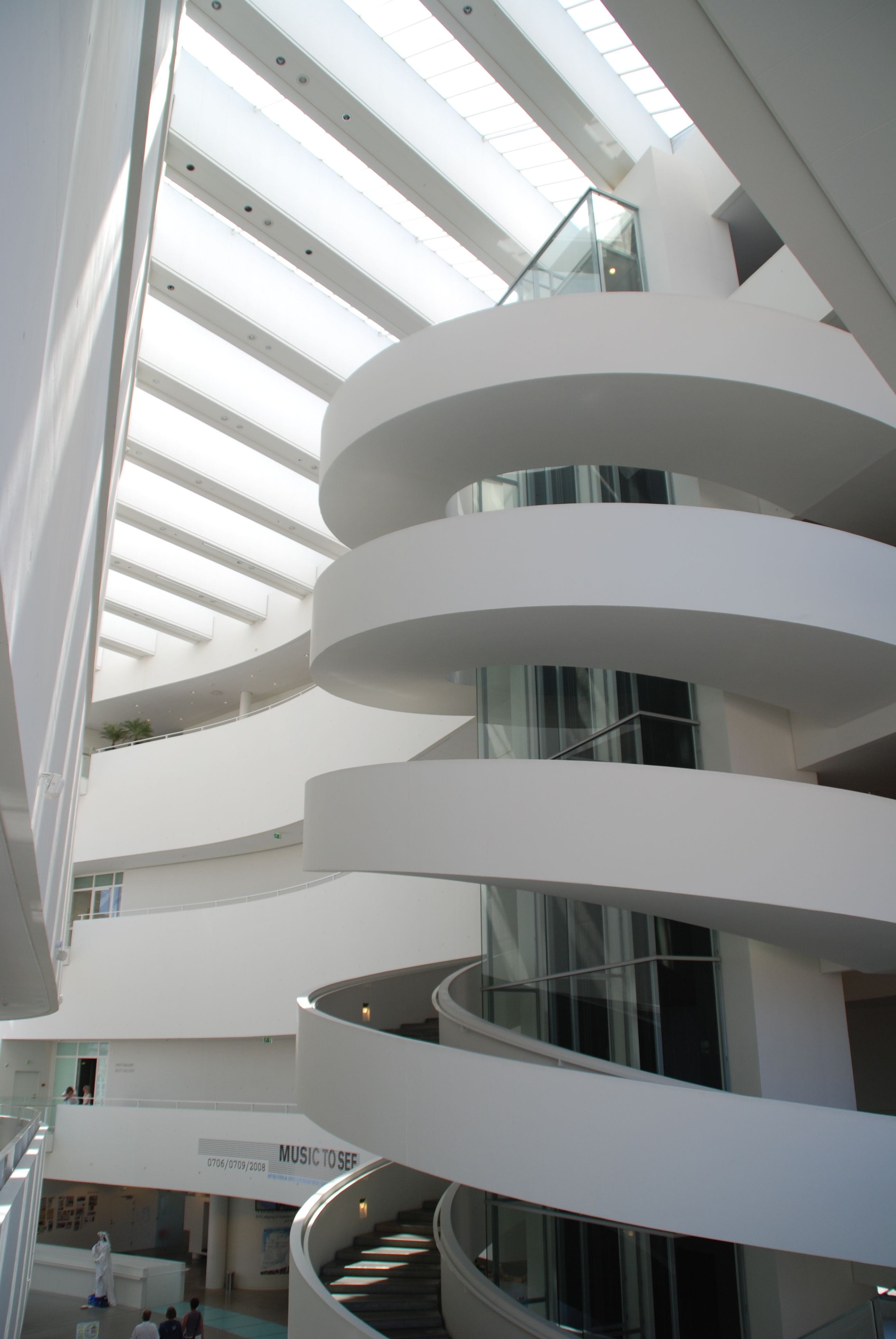 Interieur of the ARoS art museum in Aarhus, Denmark